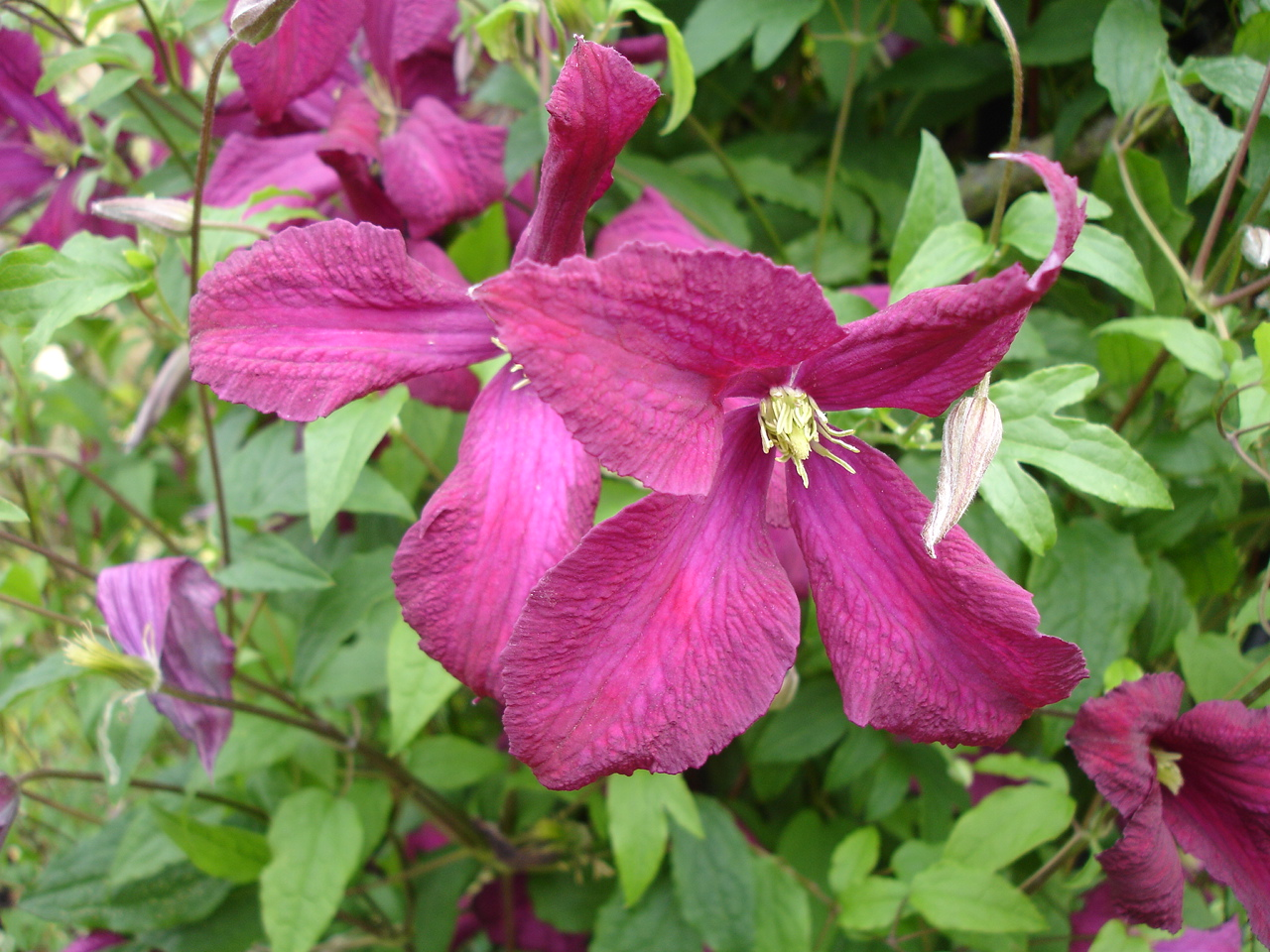 Clematis 'Mmme Julia Correvon'